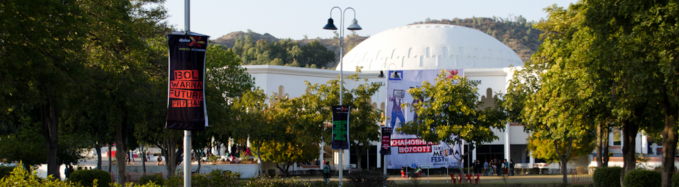 The AHA Auditorium - GIK Institute - Copyrights Reserved: The GIKI Webteam